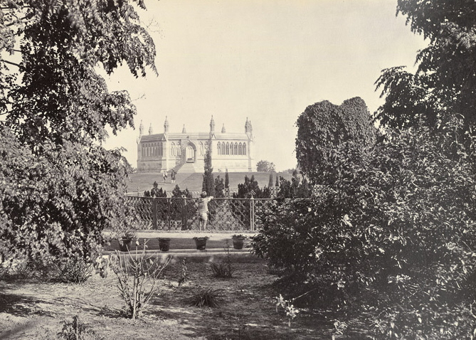 Title: "Outside of well, Cawnpore". A photo of the Bibighar well in Kanpur, India, as well as the Memorial Gardens which were placed as a memorial to the British victims of the Siege of Cawnpore. The memorial was moved in 1948.